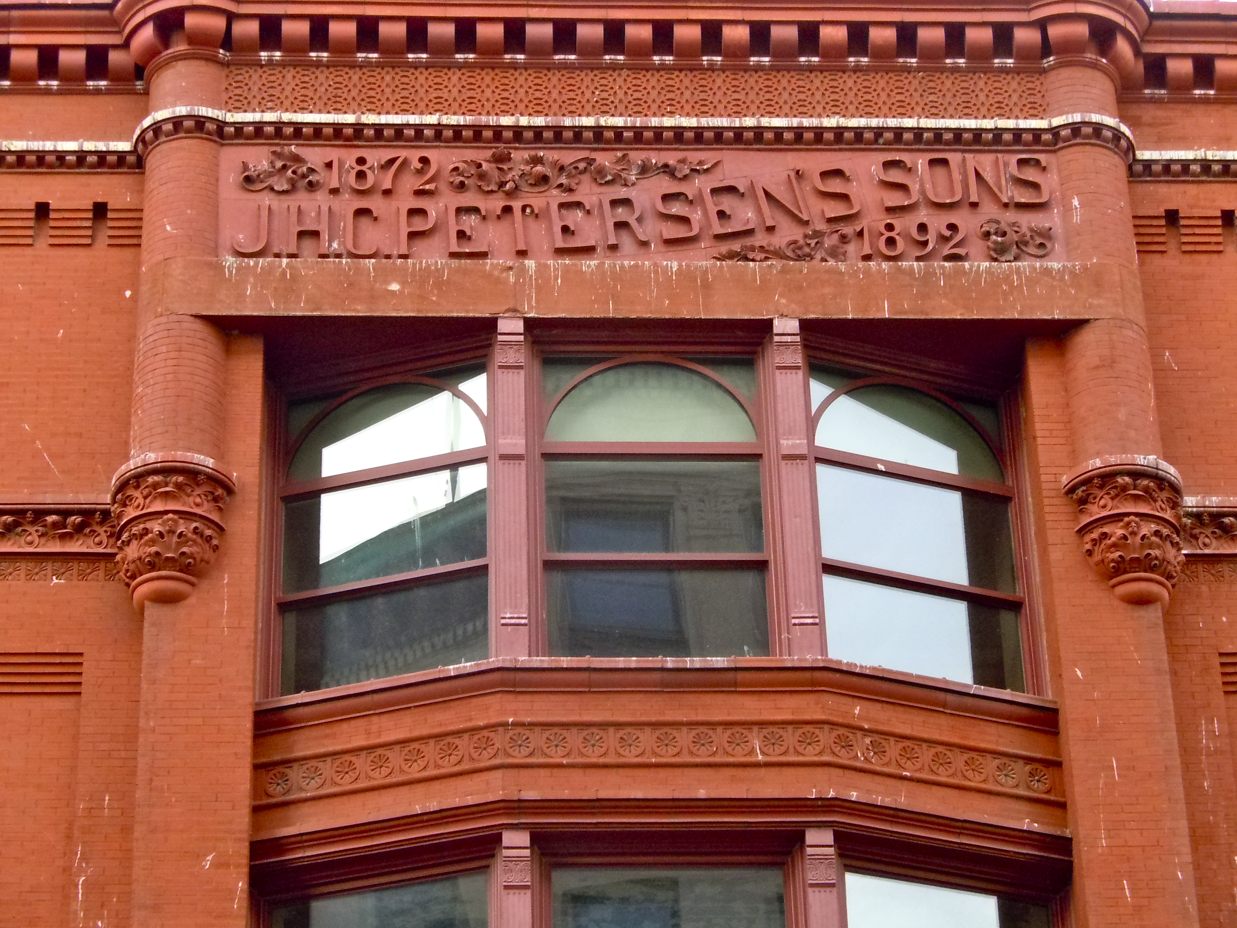 Window above main door of J.H.C. Petersen's Sons' Store, on the NRHP since July 7, 1983. At 123-131 W. 2nd St., Davenport, Scott County, Iowa. Former department store building built in the Romanesque Revival style in 1892. The structure continues to serve as a commercial building and performing arts venue. The building was designed by Fredrick G. Clausen